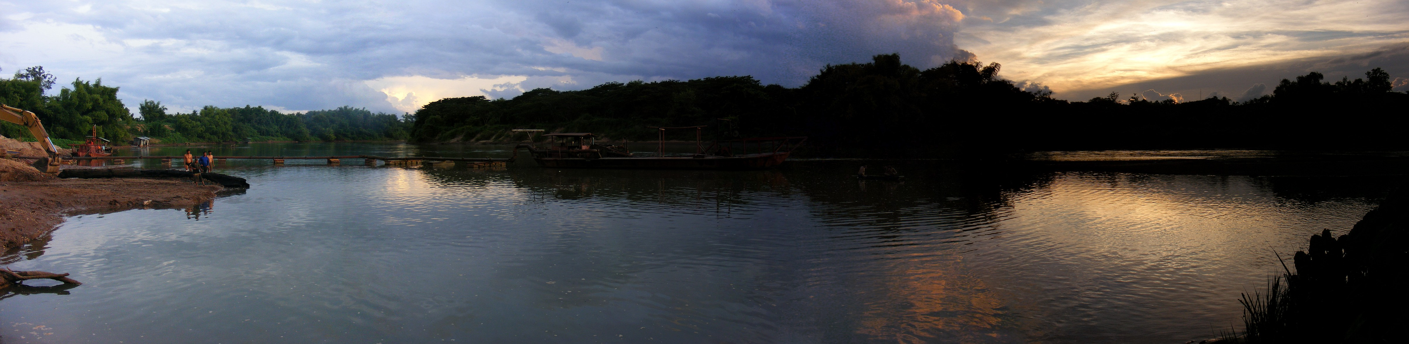 Bend of Argosy Watercourse Village Location: Wat Khung Taphao Ban Khung Taphao, Khung Taphao subdistrict, Mueang Uttaradit, Uttaradit Province, Thailand.